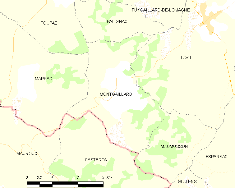 Map of French municipality Montgaillard